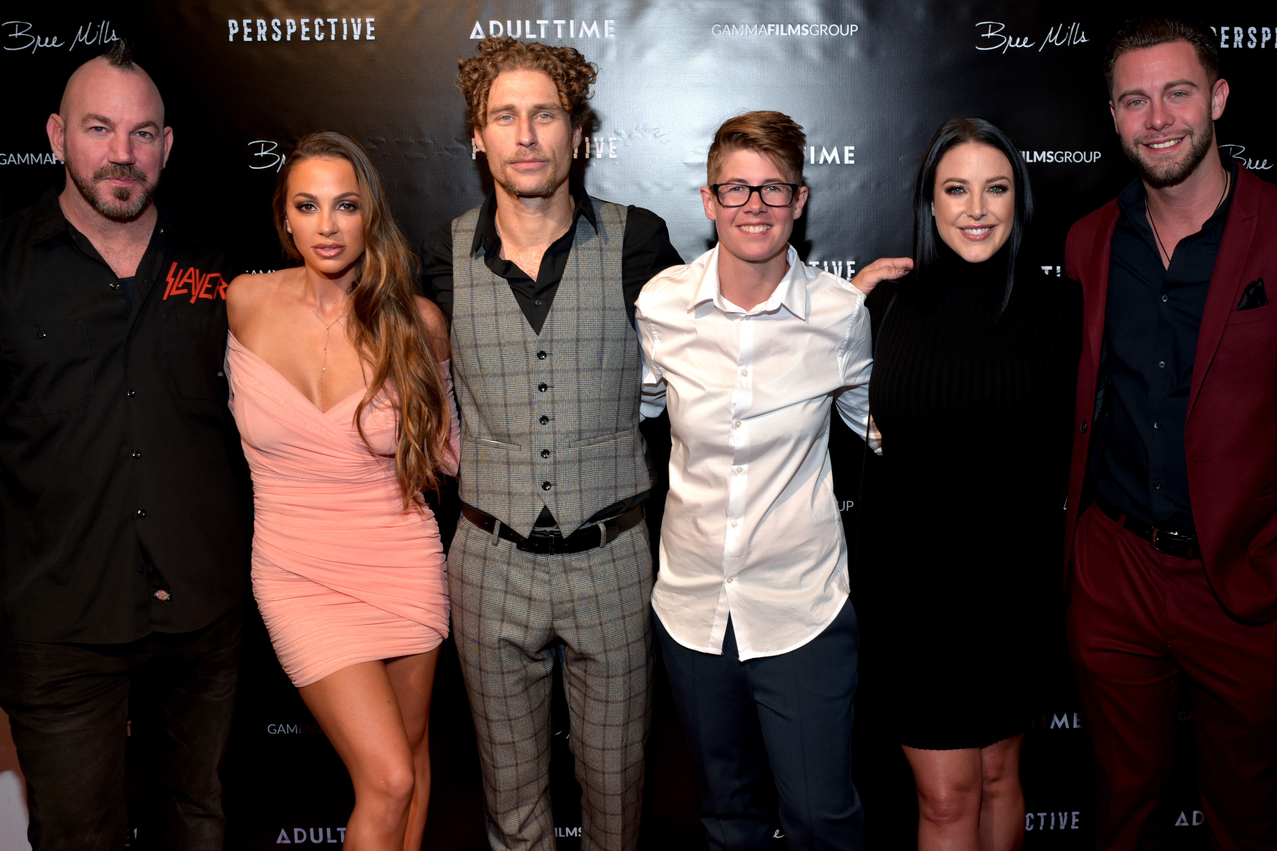 Abigail Mac, Michael Vegas, Bree Mills, Angela White, and Seth Gamble arrive for the "Perspective" movie premiere on September 21, 2019 in Hollywood, California. (Photo by Glenn Francis/Pacific Pro Digital Photography)